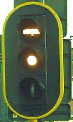 Tram signal in Flanders, Belgium